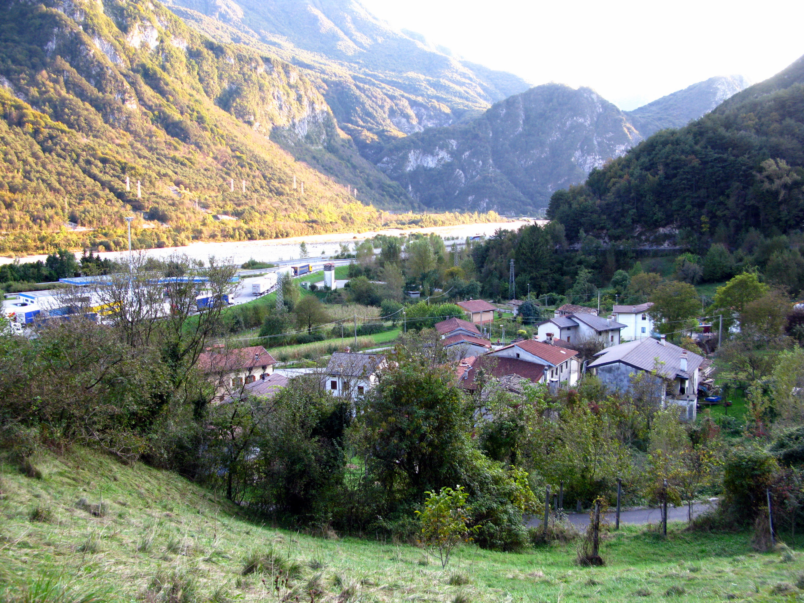 Campiolo di sopra in the Fella valley (Canal del Ferro) near Moggio Udinese / Friuli-Venezia Giulia / Italy / EU. There is a road house of the Autostrade Alpe-Adria at the outskirts of town. In the background the rising edge of Mte. Pláuris.